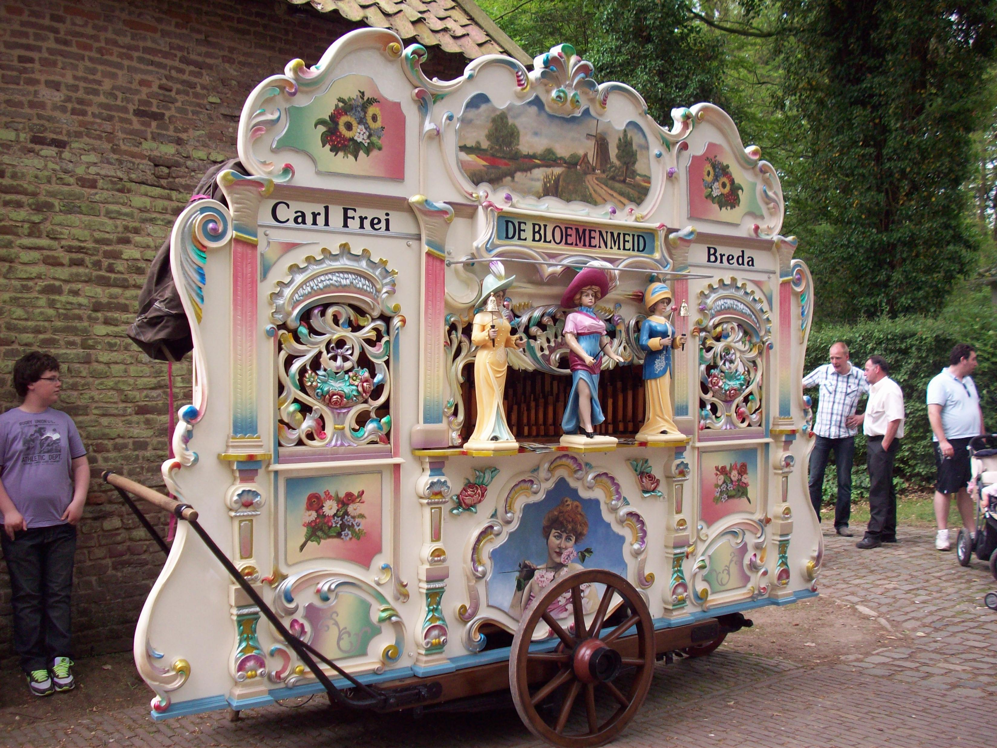 The "Bloemenmeid" ("Flower Girl") barrel organ is a Dutch street organ, originally built as Gavioli cylinder organ. The organ has 72 keys.